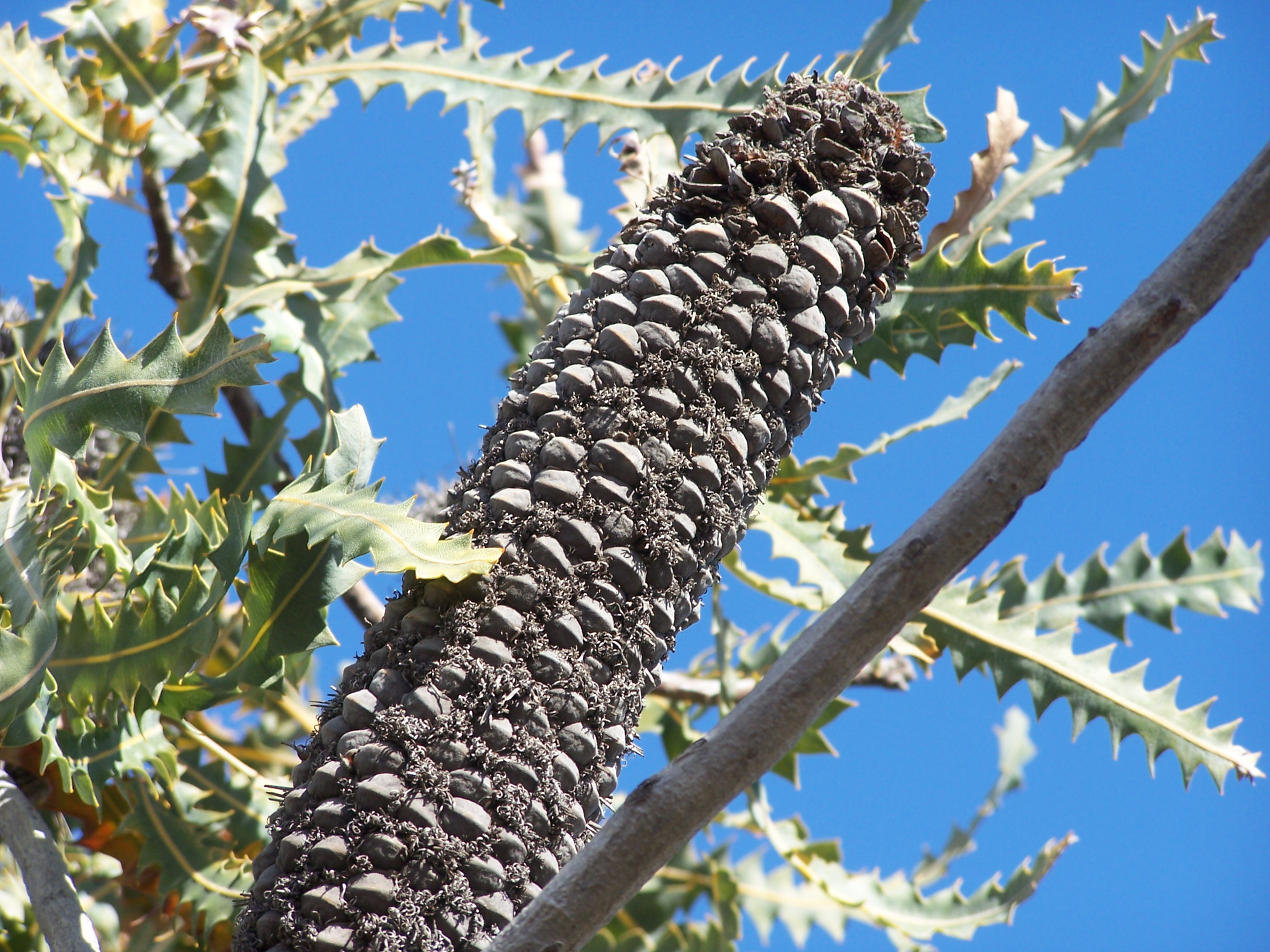 Banksia ahsbyi, street planting on verge and island south street Bullcreek WA